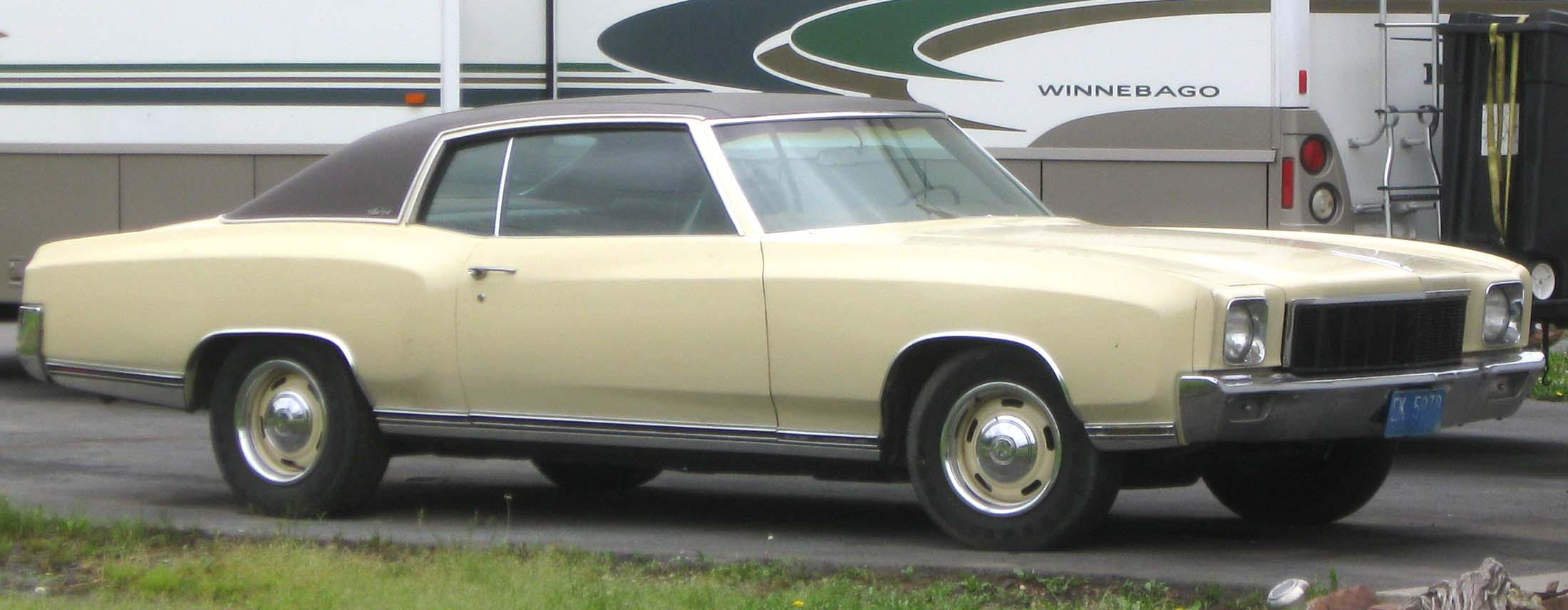 1971 Chevrolet Monte Carlo photographed in Accokeek, Maryland, USA.